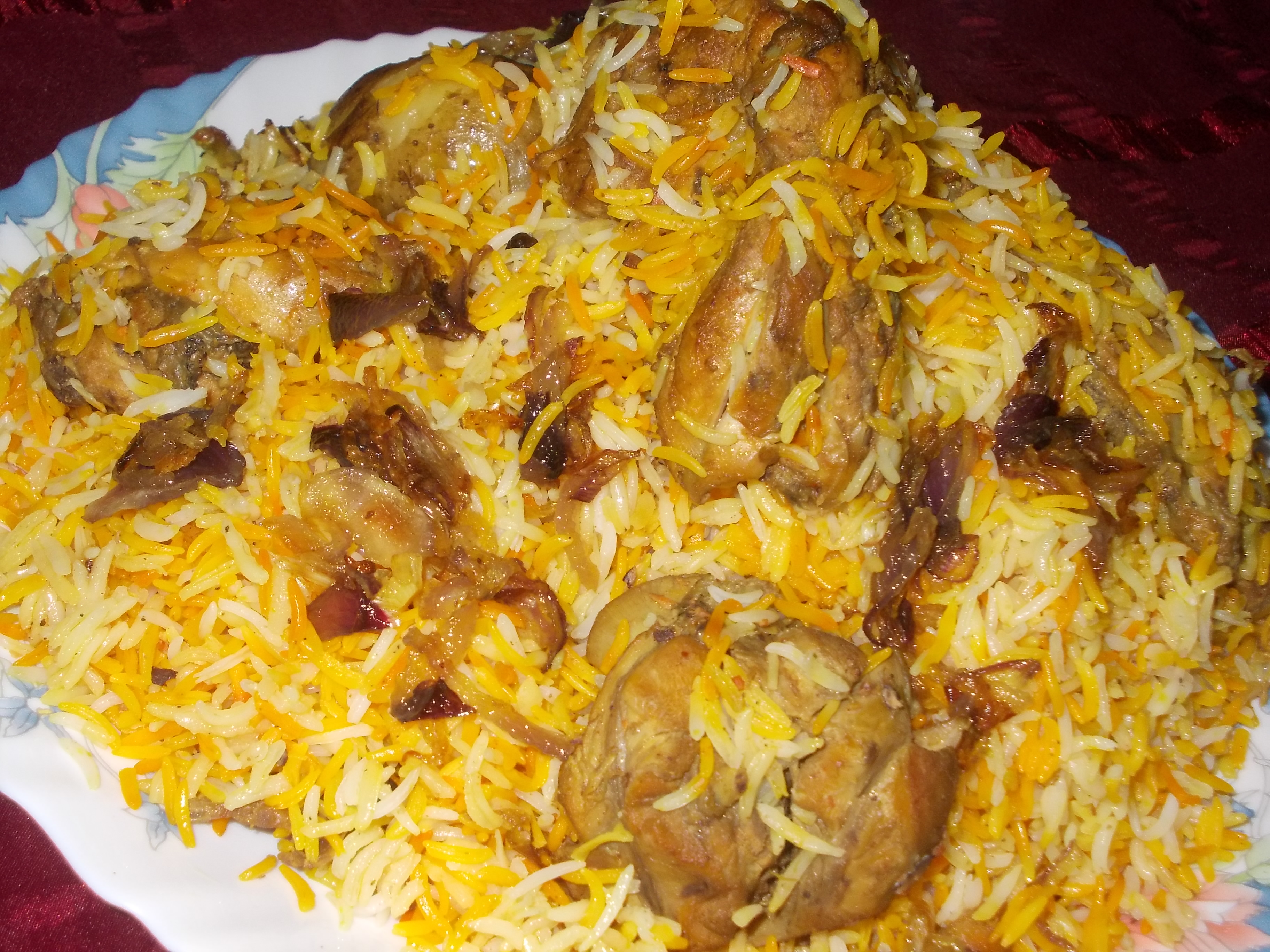 Biryani with chicken